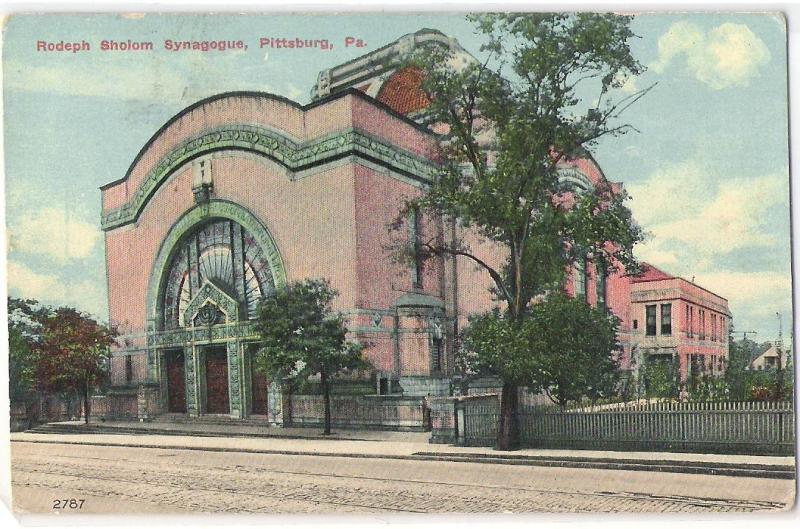 Pittsburgh Rodef Shalom Temple in 1912